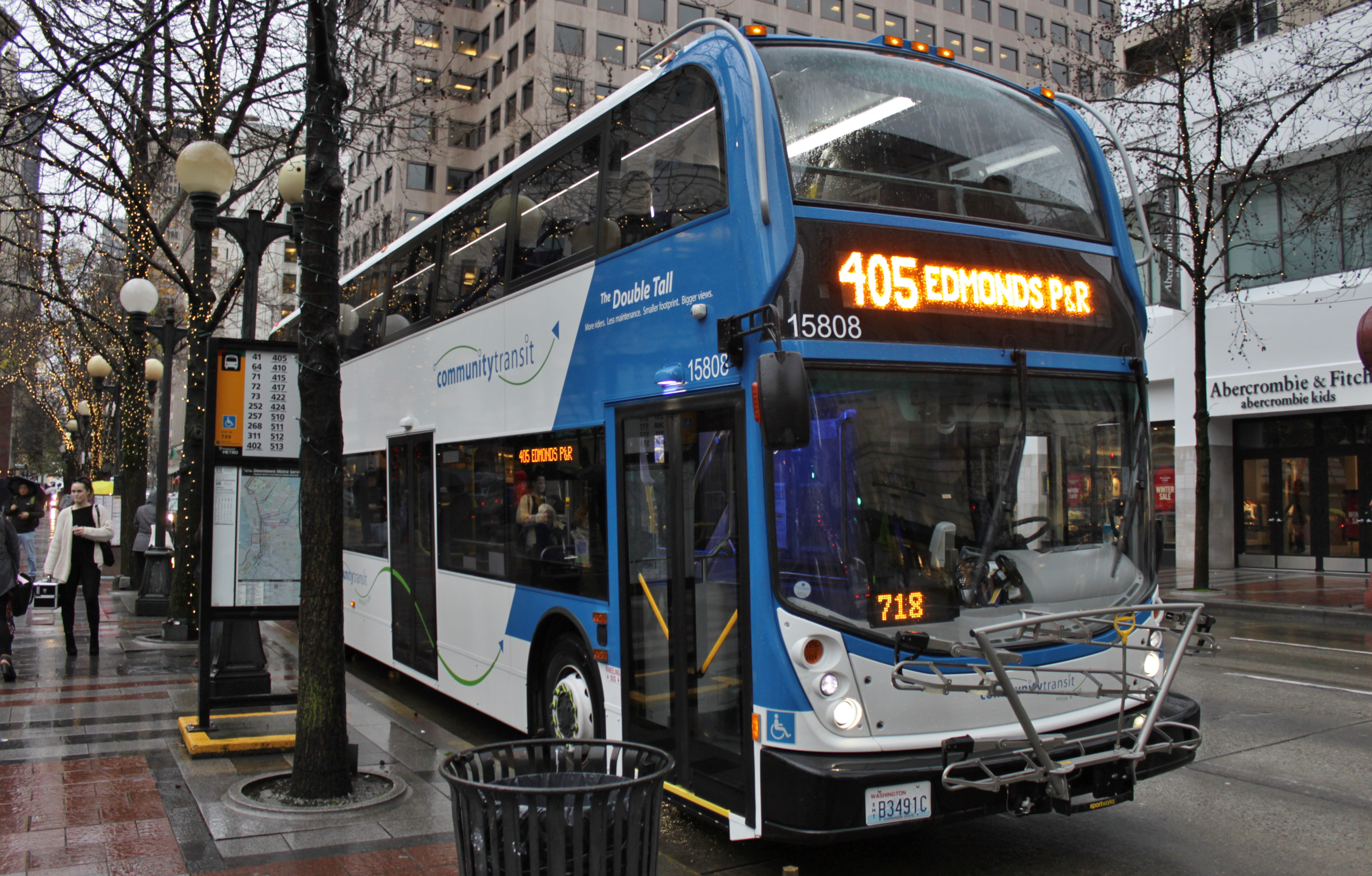 Community Transit 15808, a 2015 Alexander Dennis Enviro500 double-decker bus (branded as "The Double Tall"), on route 405 at the 4th & Pine stop. The 2015 fleet is part of the second generation of Community Transit double-deckers, entering service in October 2015 to replace some older articluated buses.